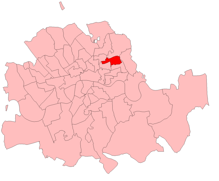 A map of Bethnal Green North East constituency within the Metropolitan Board of Works area, as it existed from 1885 to 1918.